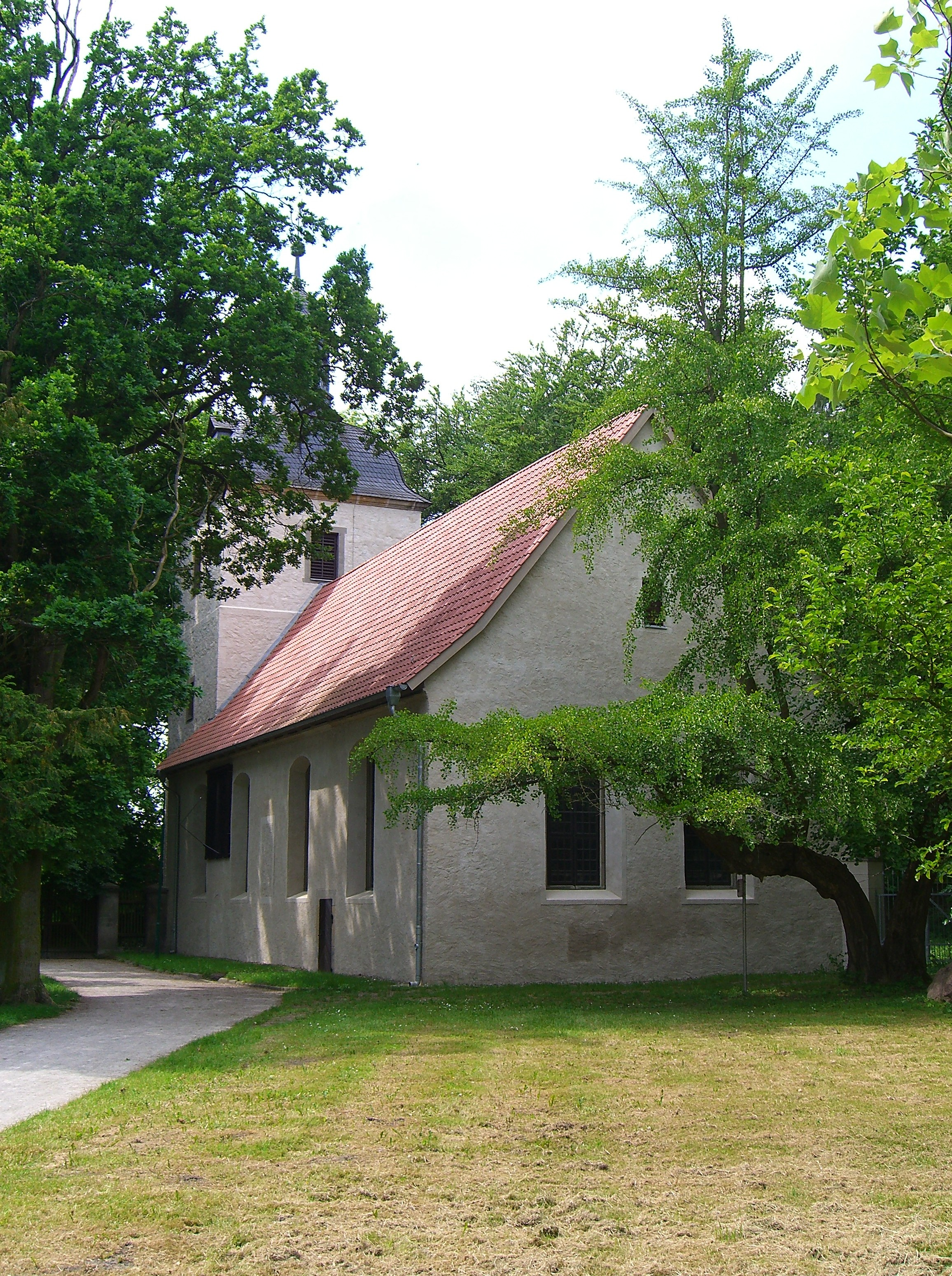 Church "St. Levin" in Harbke (built in 1572). On the right the oldest "Ginkgo biloba" tree in Germany (planted in 1758).